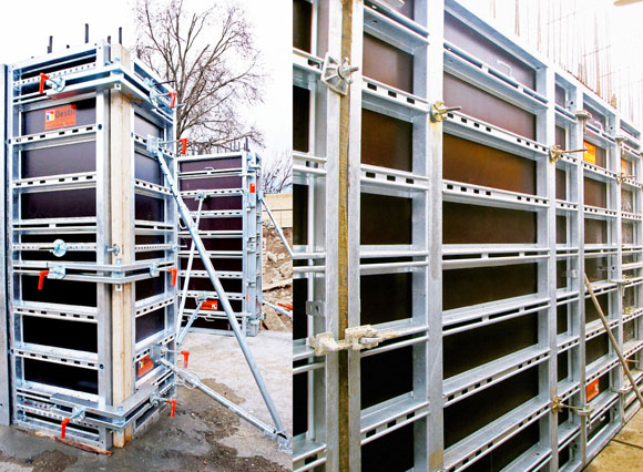 Formwork Destil to England